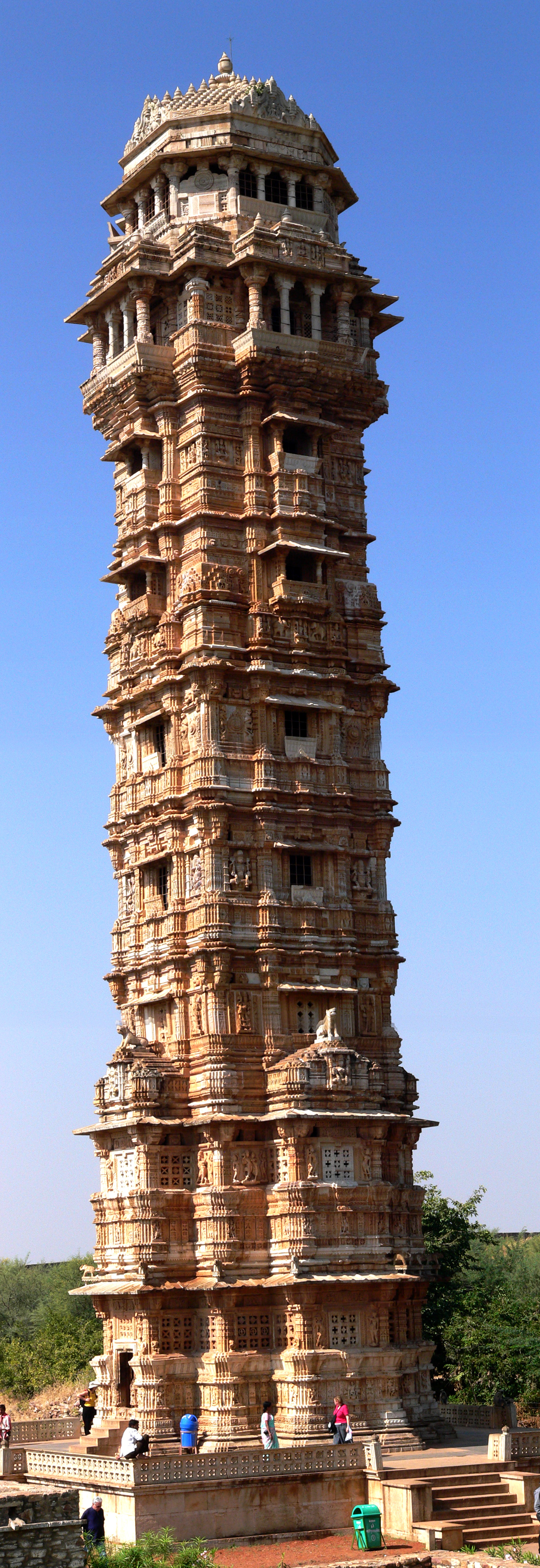 Victory Tower ( Vijay Stambh), Chittorgarh, Rajasthan, India